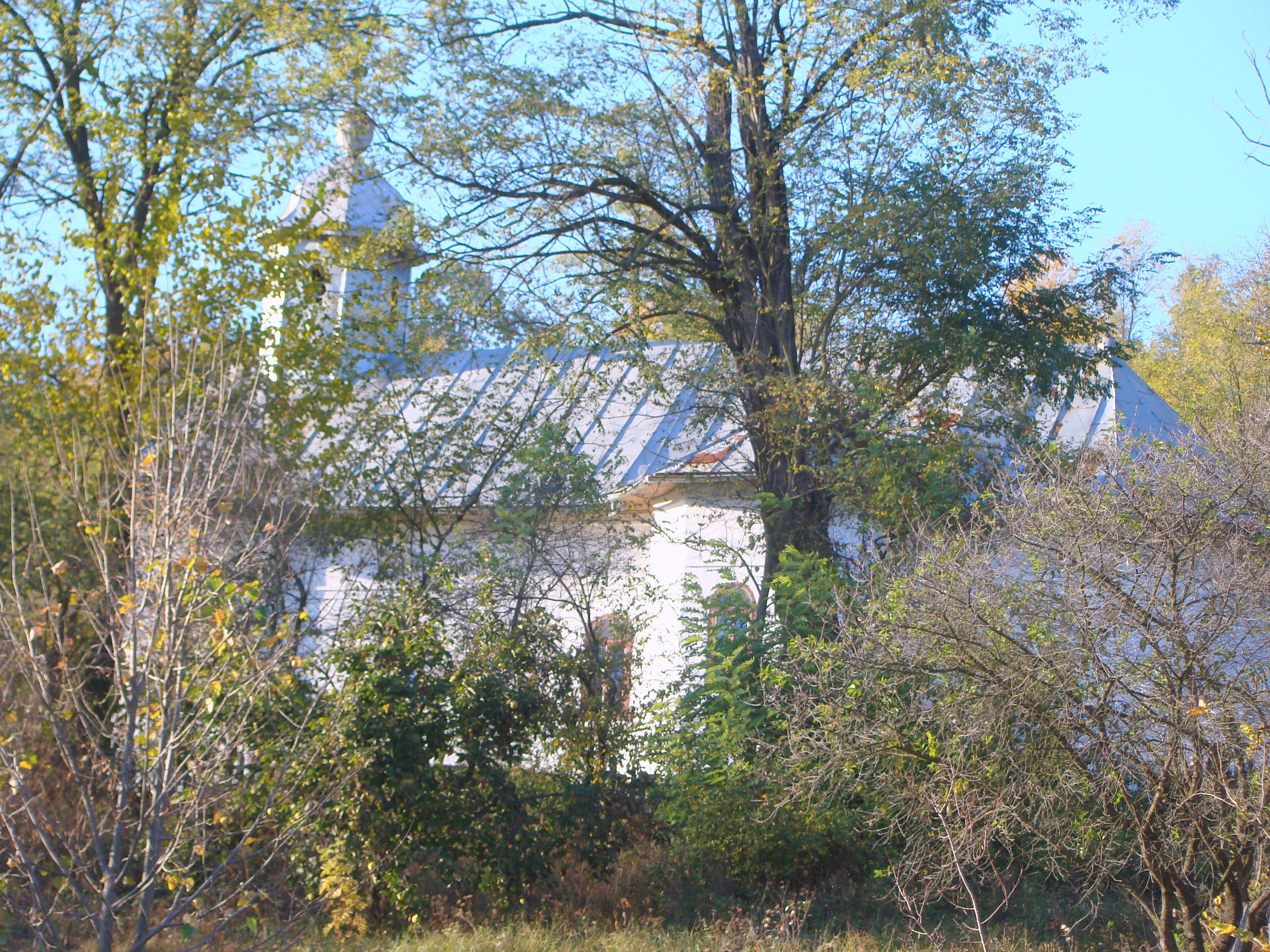 Wooden church in Strâmtu, Gorj county, Romania